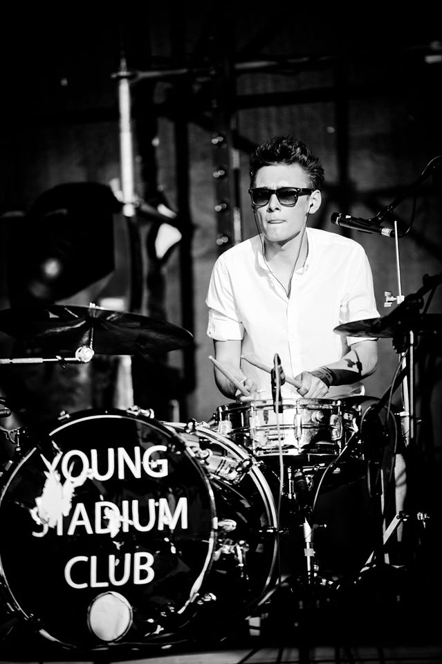 Orange Warsaw Festival show